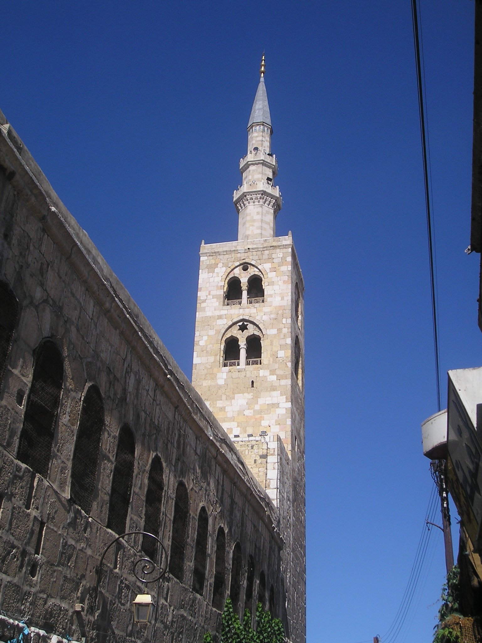 Damascus, Syria - Umayyad Mosque: Minaret of Jesus (Medinat Isa) at the southeastern corner